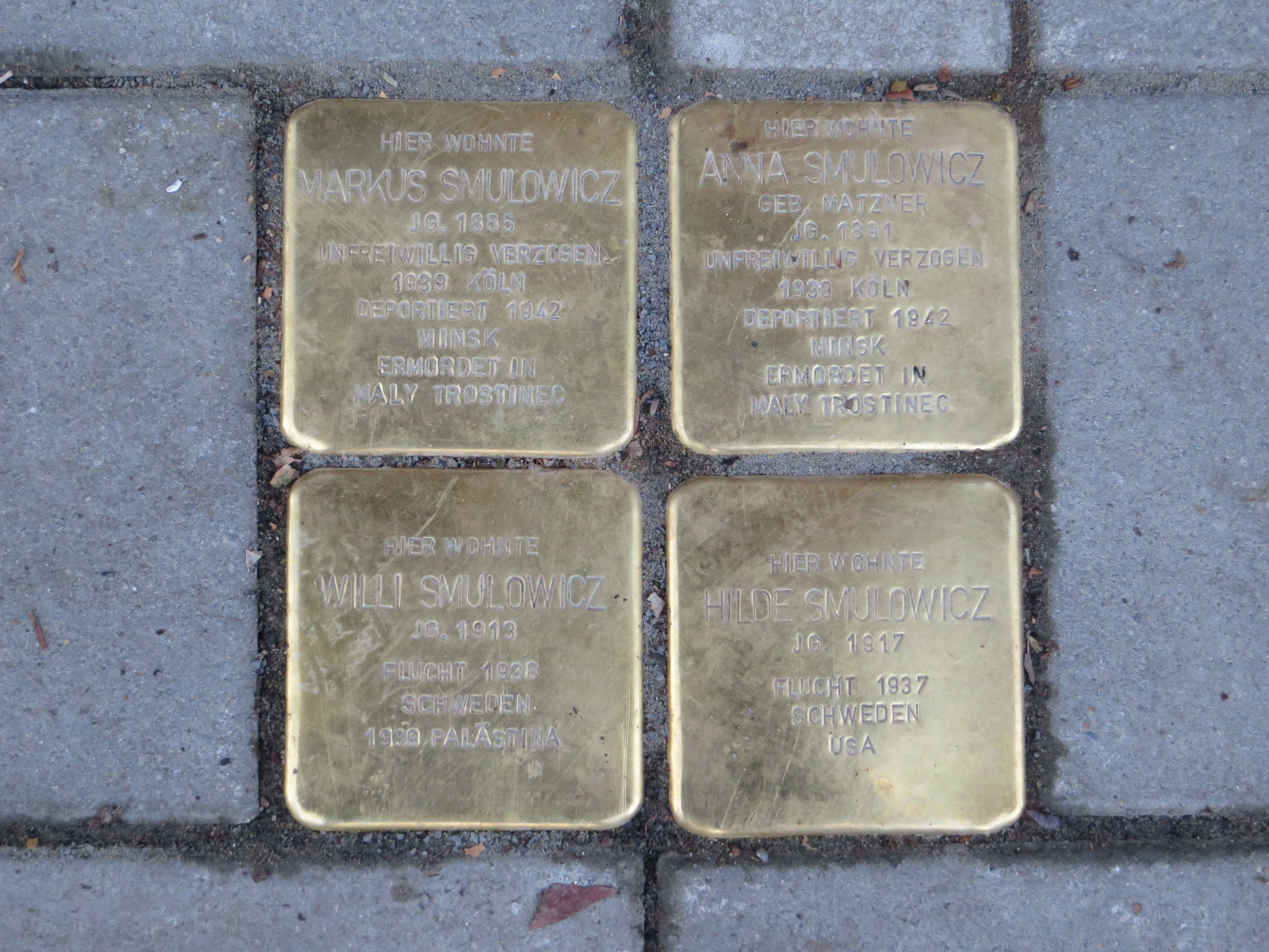 Stolpersteine at house Lessingstraße 6 in Witten, GermanyEsperanto: Stumbligaj ŝtonetoj ĉe domo Lessingstraße 6 en Witten, Germanio